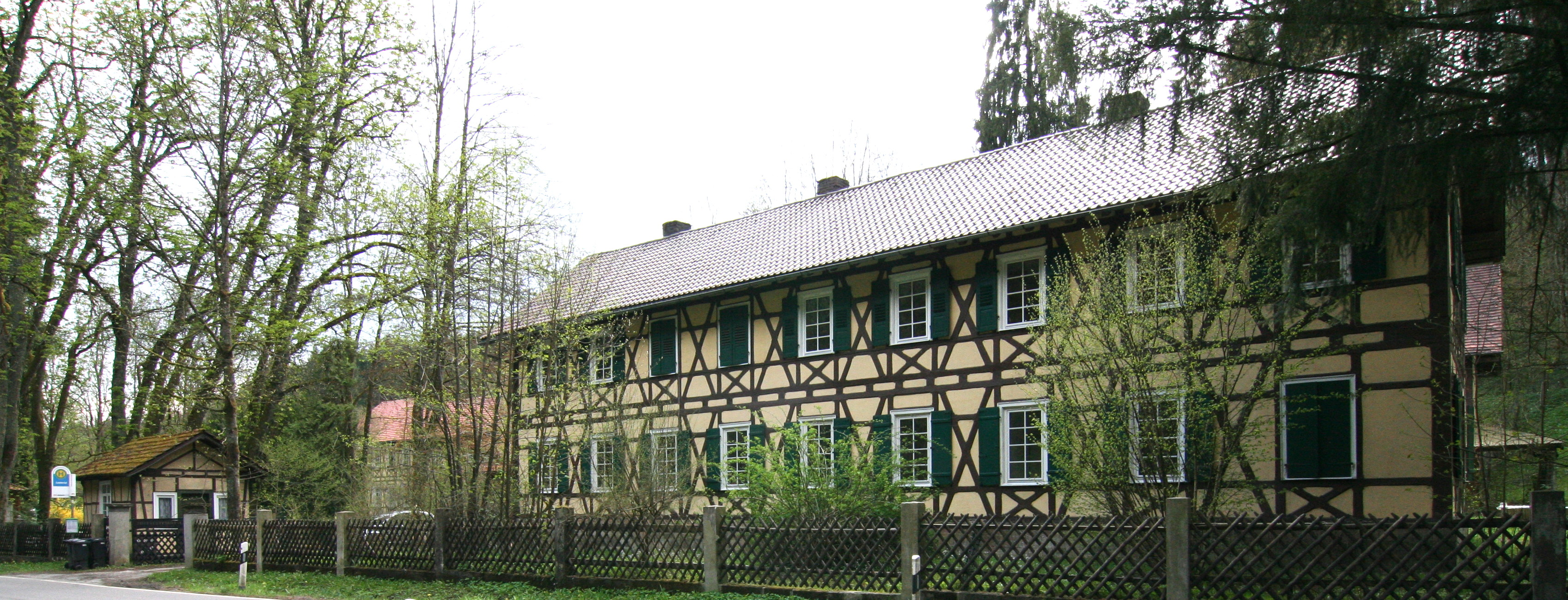 Former factory complex Lautertal from 1852 in Wüstenrot-Neulautern